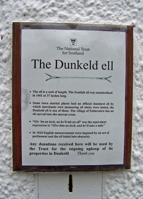 About the Dunkeld ell. Information on the outside of The Ell House, The Cross, Dunkeld. See also 1505835.